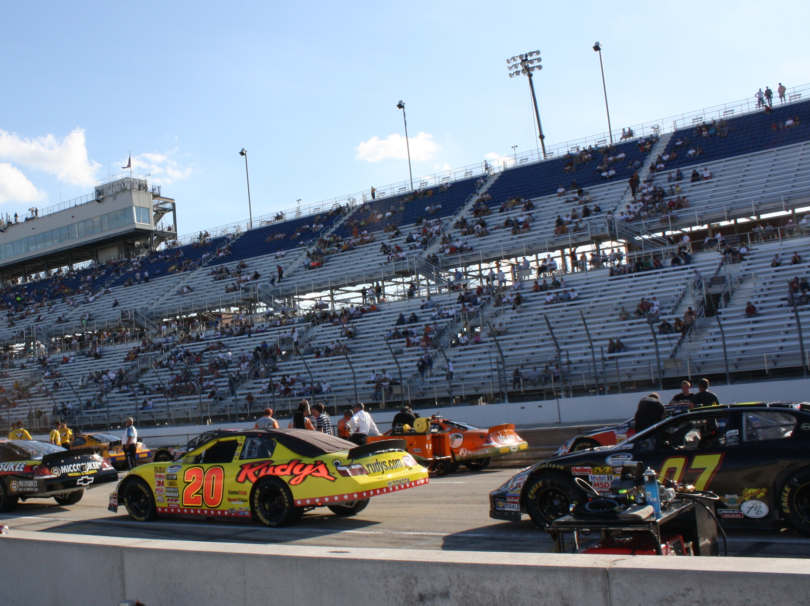 Impounded NASCAR Nationwide Cars on the frontstretch at the Milwaukee Mile. Many of the cars were hooked up to battery charging equipment and some were covered.